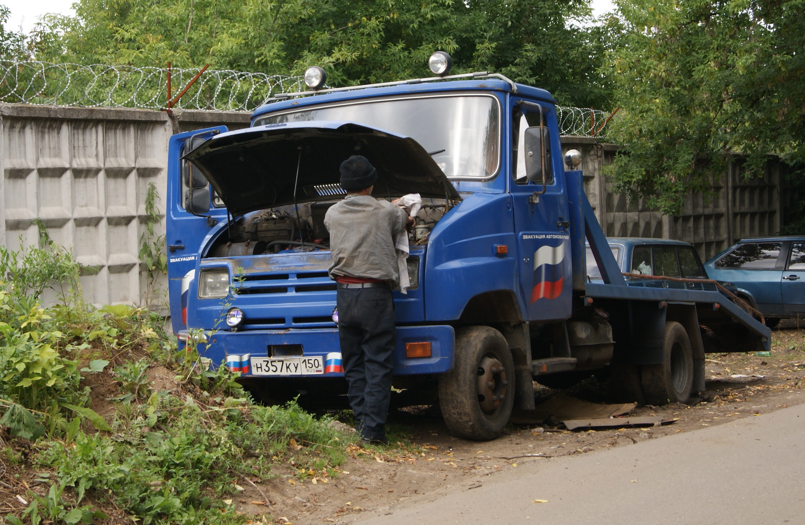 A man working on an engine of a ZiL-5301.